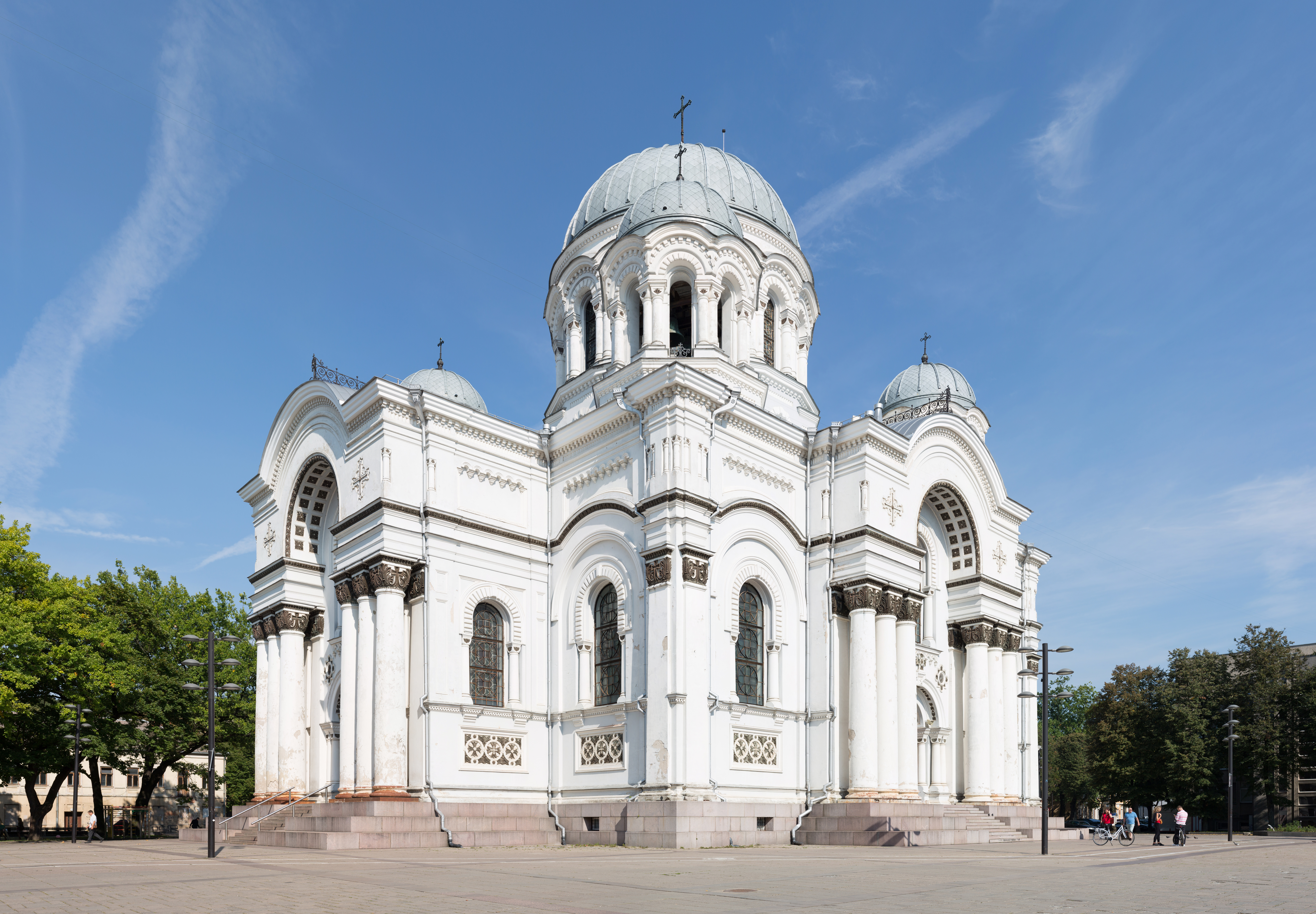 The exterior of St. Michael the Archangel Church in Kaunas, Lithuania